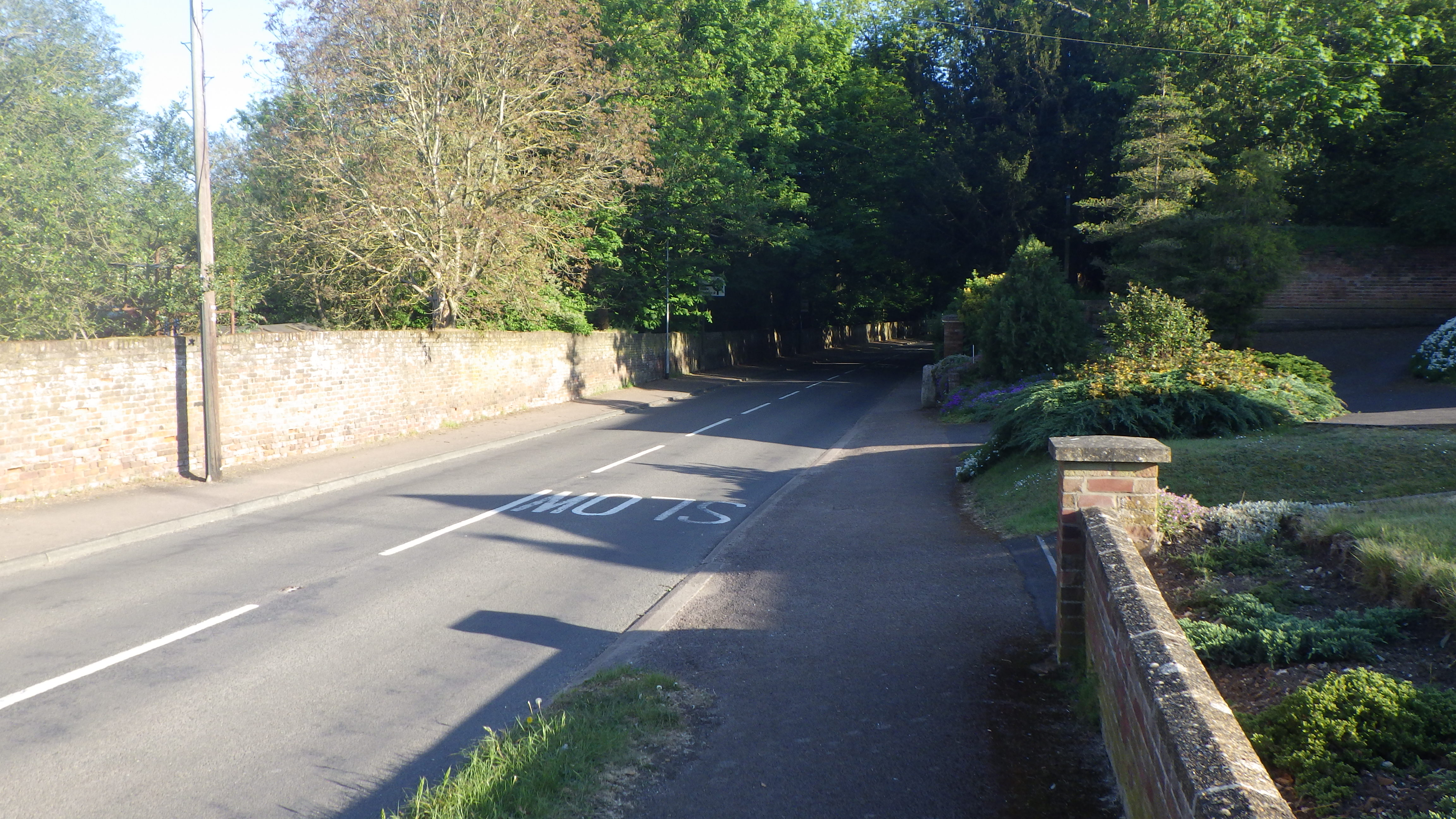 The Roman road and High Street would have formed a crossroads at this point.